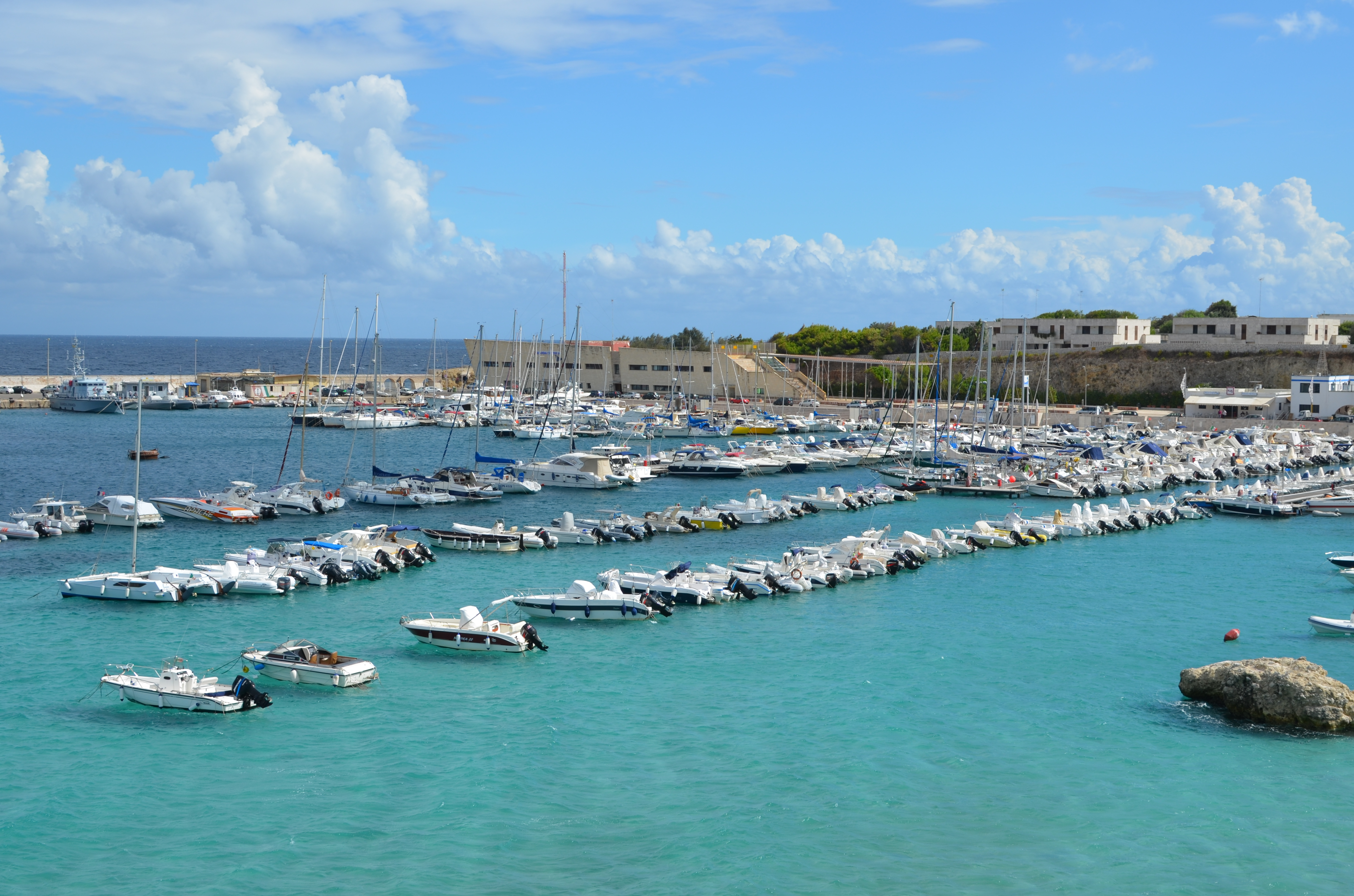 The harbor of Otranto seen from the historic center.